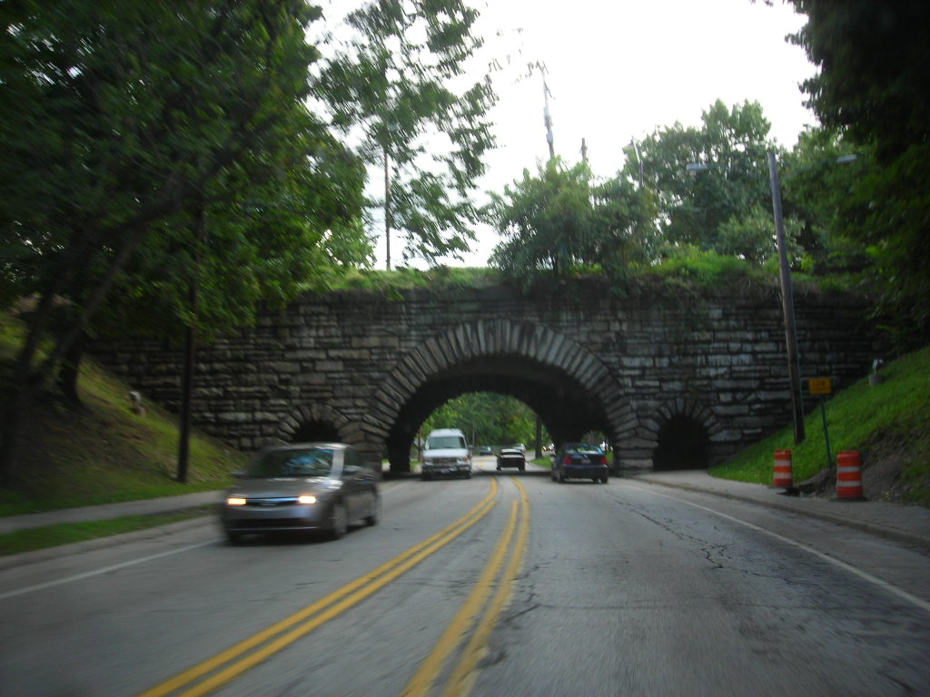 One of the Rockefeller Park bridges crossing Martin Luther King Jr. Drive in Cleveland